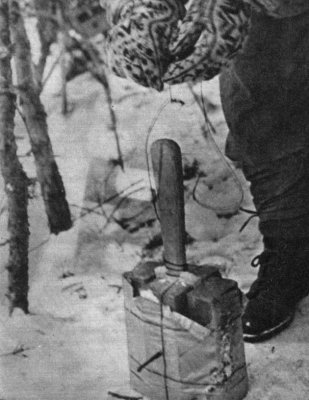 Satchel charge